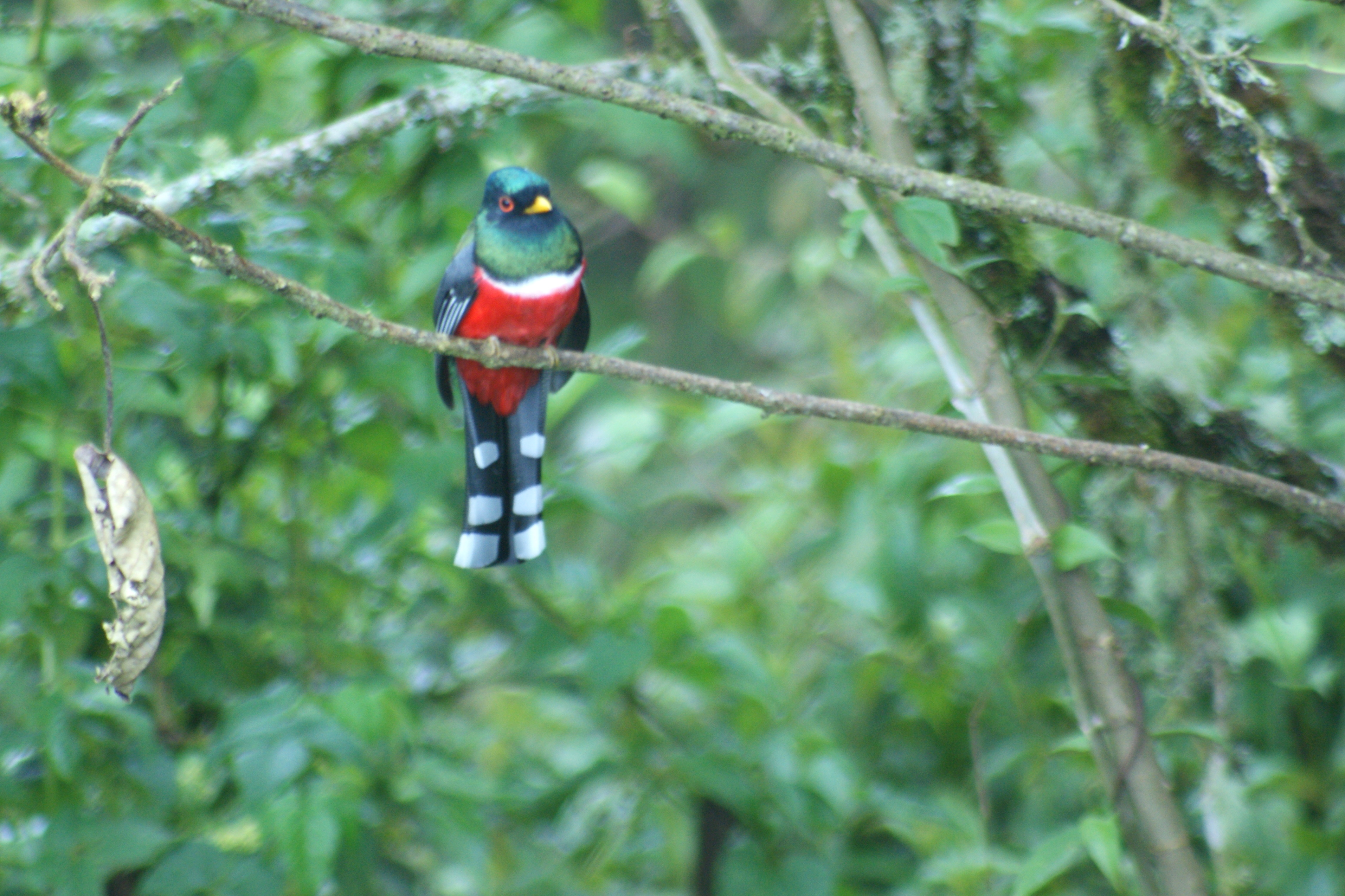 An adult male Masked Trogon in Colombia.